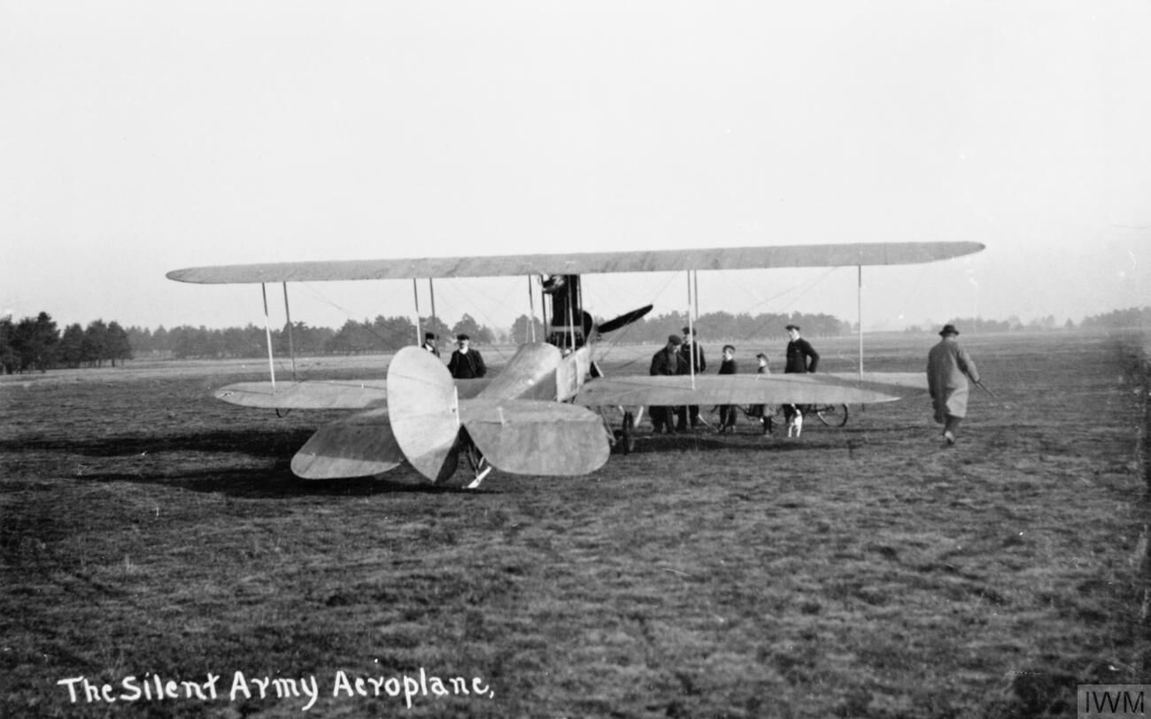 Aviation in Britain Before the First World War The B.E. 1 on the ground with a small group of spectators. Photograph shows aircraft in its original state, with a water-cooled Wolseley engine this was sometimes known as the silent aeroplane.